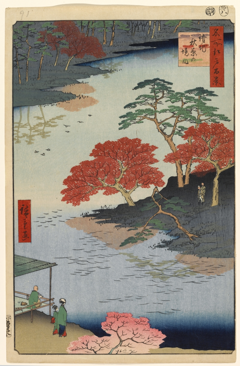 Part of the series One Hundred Famous Views of Edo, no. 091, part 3: Autumn.